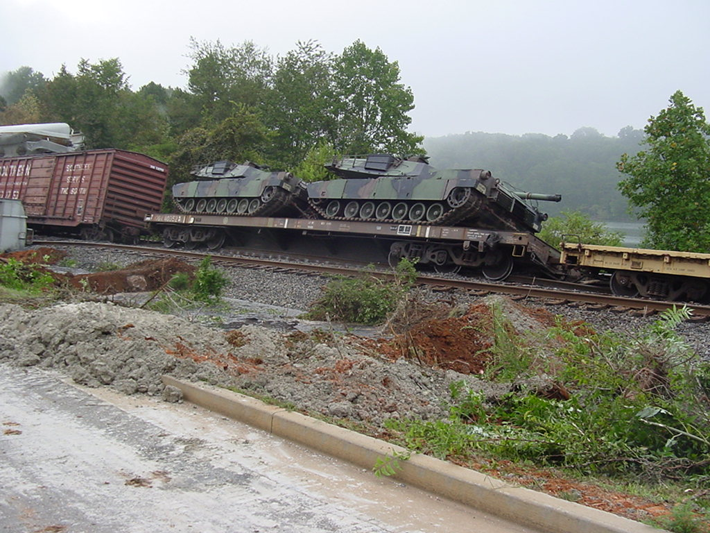 Derailed cars block a roadway in Farragut, TN in 2002.